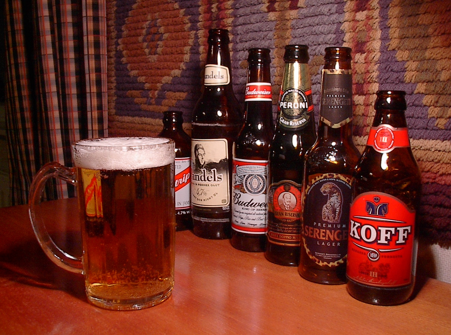 A glass of beer, with different opened beer bottles in the background. (Red Stripe, Sandels, Budweiser, Peroni Gran Riserva, Premium Serengeti Lager, Koff)